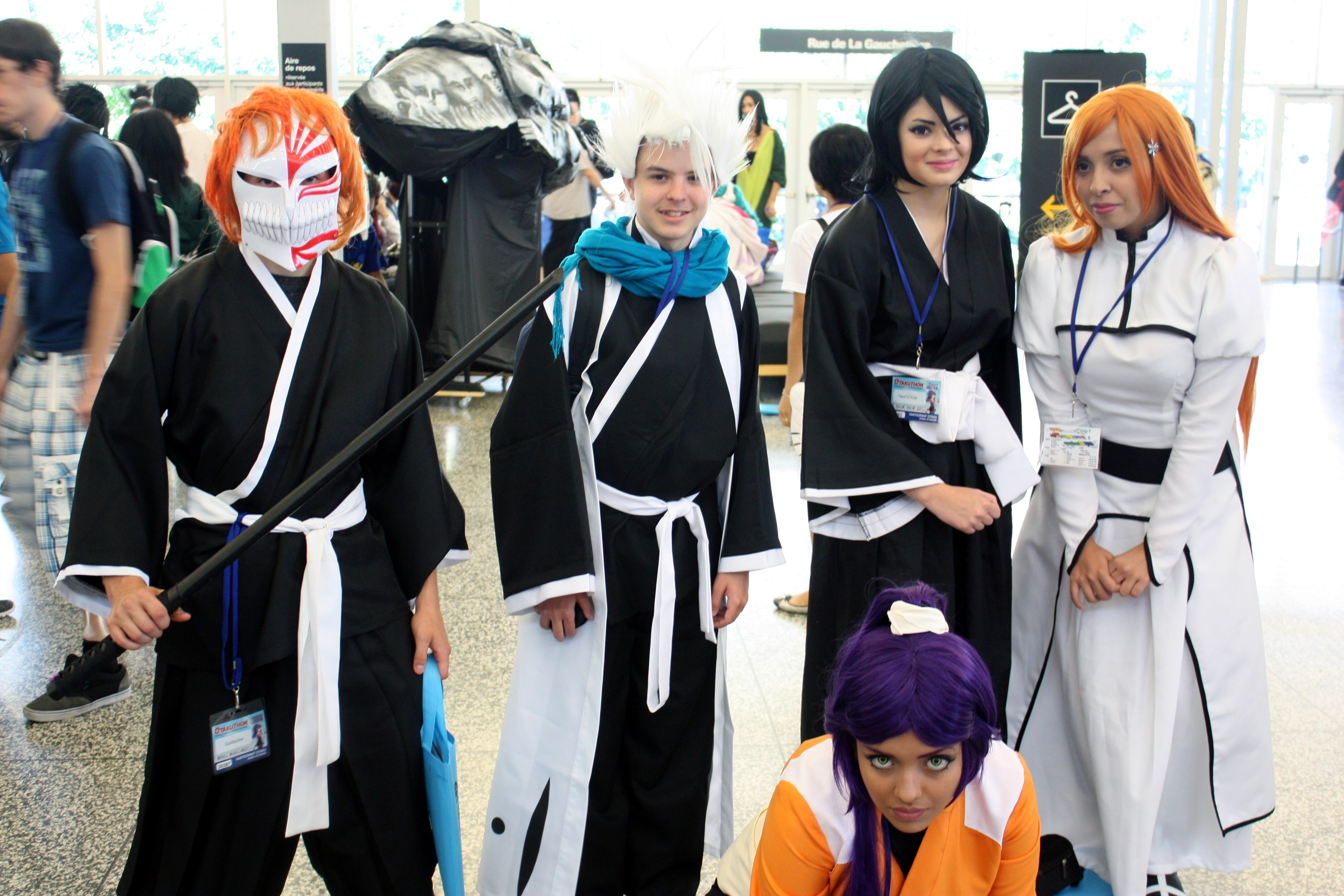 Otakuthon 2014: Bleach cosplay